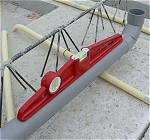 Spirit level; pipe on slope.